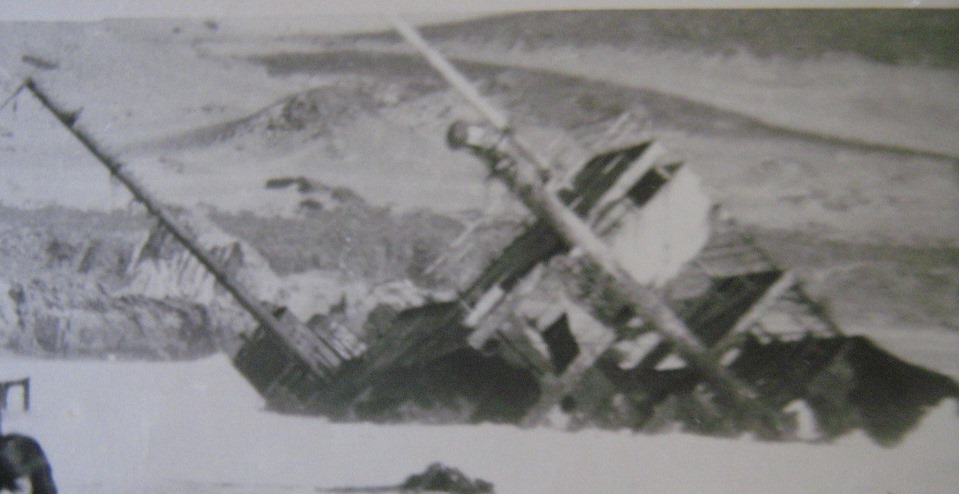 Peruvian cargo ship broken on the roks